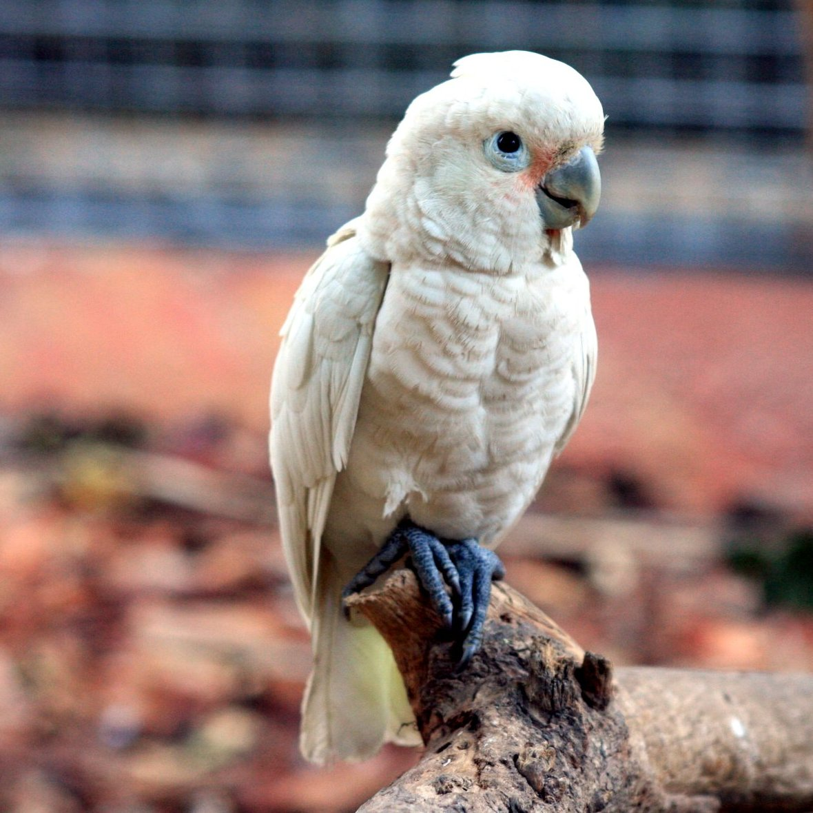 Tanimbar Corella (also known as Goffin's Cockatoo or Goffin's Corella) in captivity.